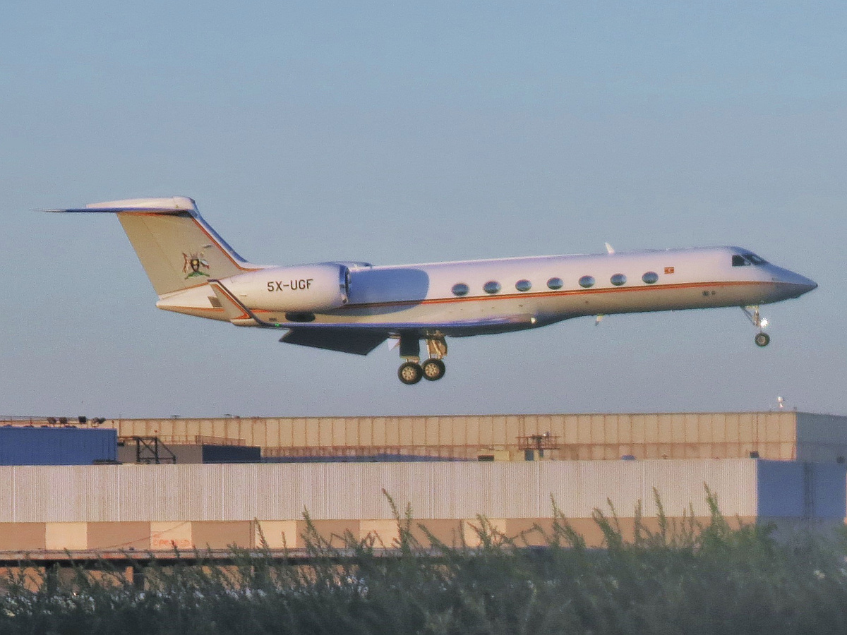 The Government of Uganda's Gulfstream G550 is approaching John F. Kennedy International Airport to take its United Nations delegation home.